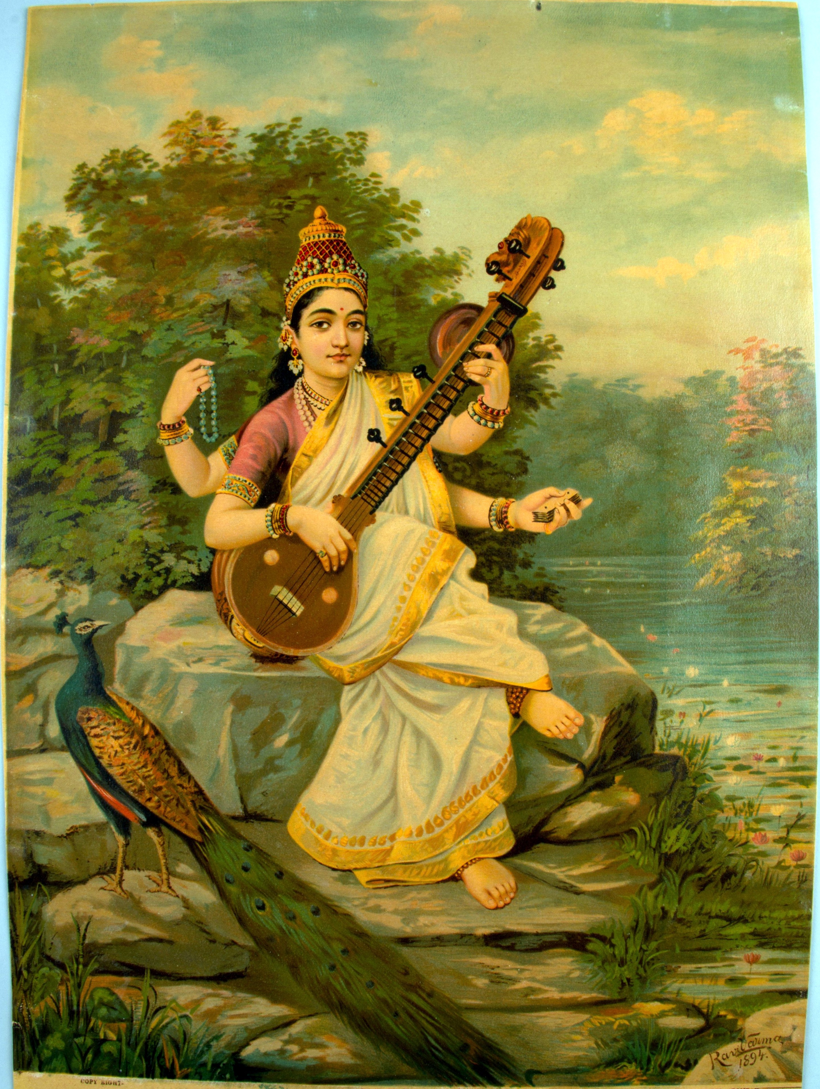 Saraswati Date: 1894–1900 Culture: India Medium: Lithograph Dimensions: Image: 19 × 14 in. (48.3 × 35.6 cm) Sheet: 20 × 14 in. (50.8 × 35.6 cm) Classification: Prints Credit Line: Purchase, Anonymous Gift, 2013 Accession Number: 2013.11 This artwork is not on display